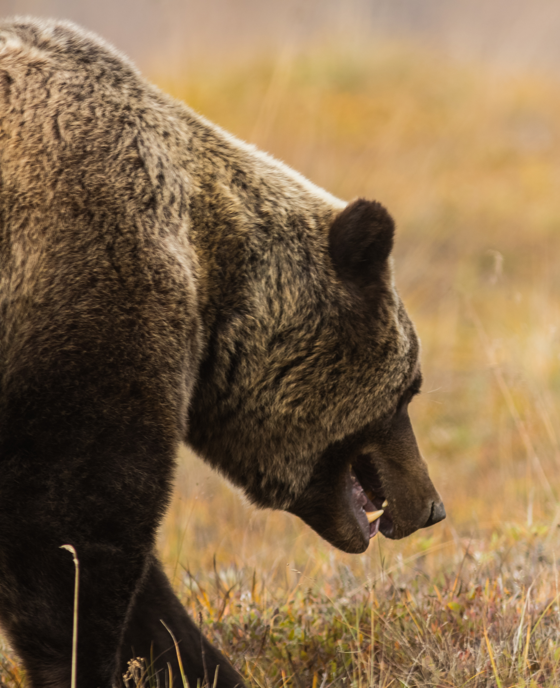 Grizzly bear (Ursus arctos horribilis), Denali National Park, Alaska, United States